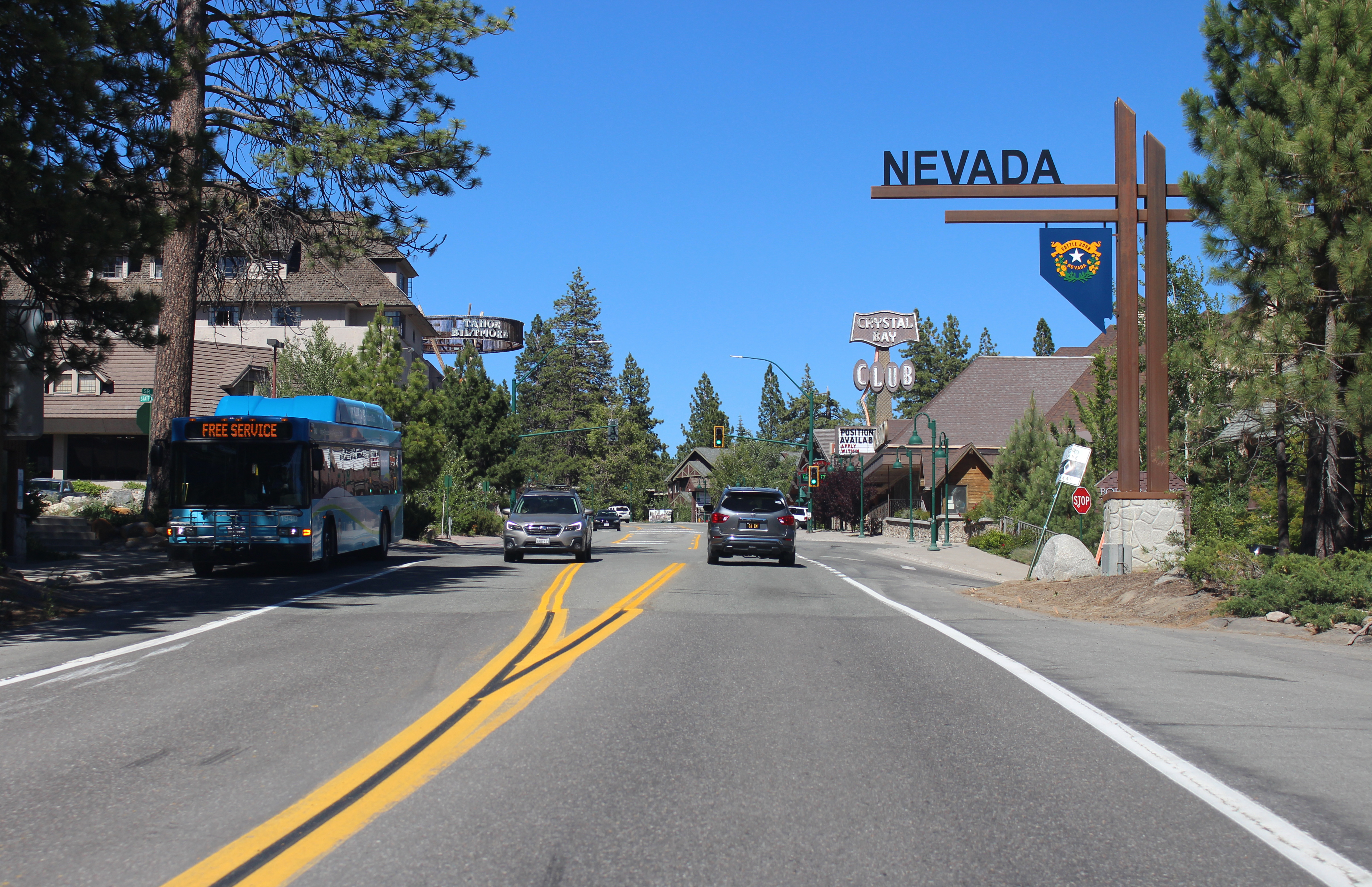 The Nevada welcome sign in Crystal Bay, Nevada, as seen by travelers crossing over from Kings Beach, California. Photographed by user Coolcaesar on July 4, 2020.